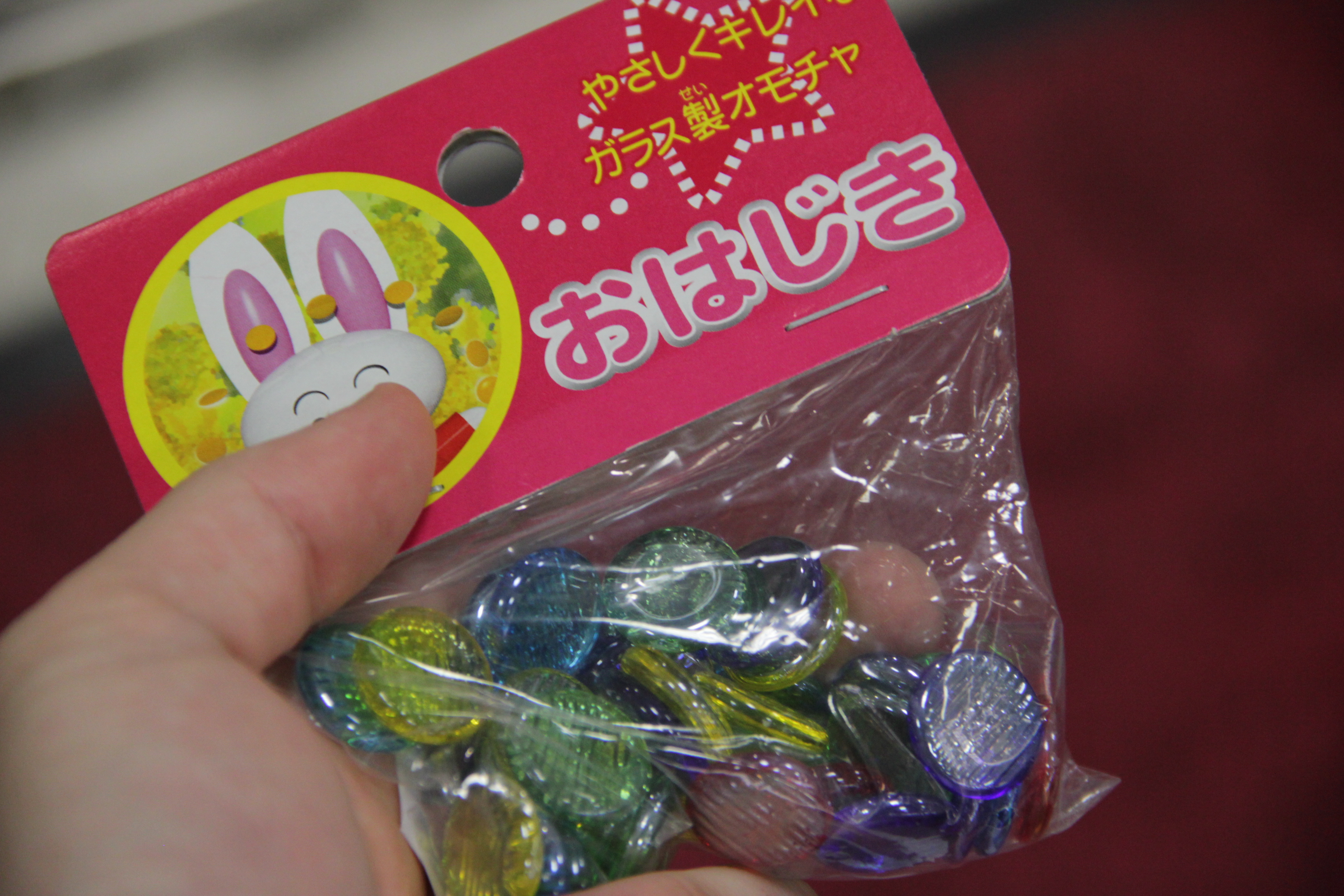 A bag of ohajiki (used to play the traditional Japanese game of the same name)